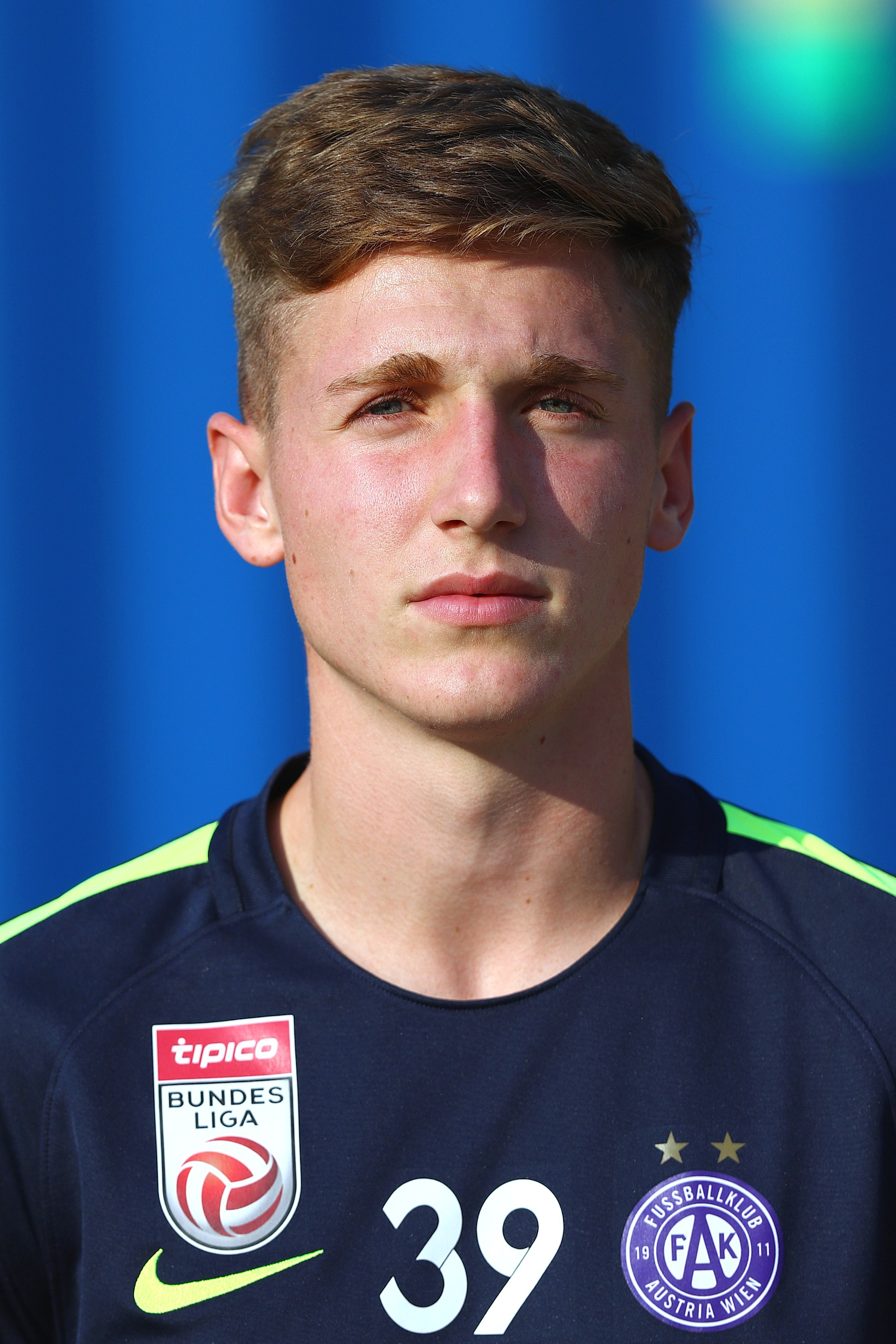 Championshipmatch of the 2nd League 2017–18 SC Wiener Neustadt (white shirts) vs. Young Violets (violet shirts) at 2018-08-17 in the Stadion in Wiener Neustadt. – The photo shows Aleksandar Jukic (FK Austria Wien II).